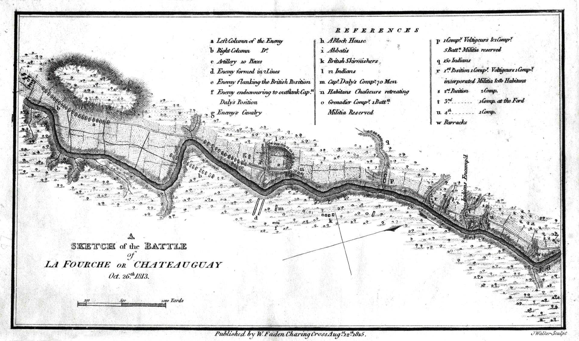 A Sketch of the battle of La Fourche or Chateauguay, Oct. 26th 1813